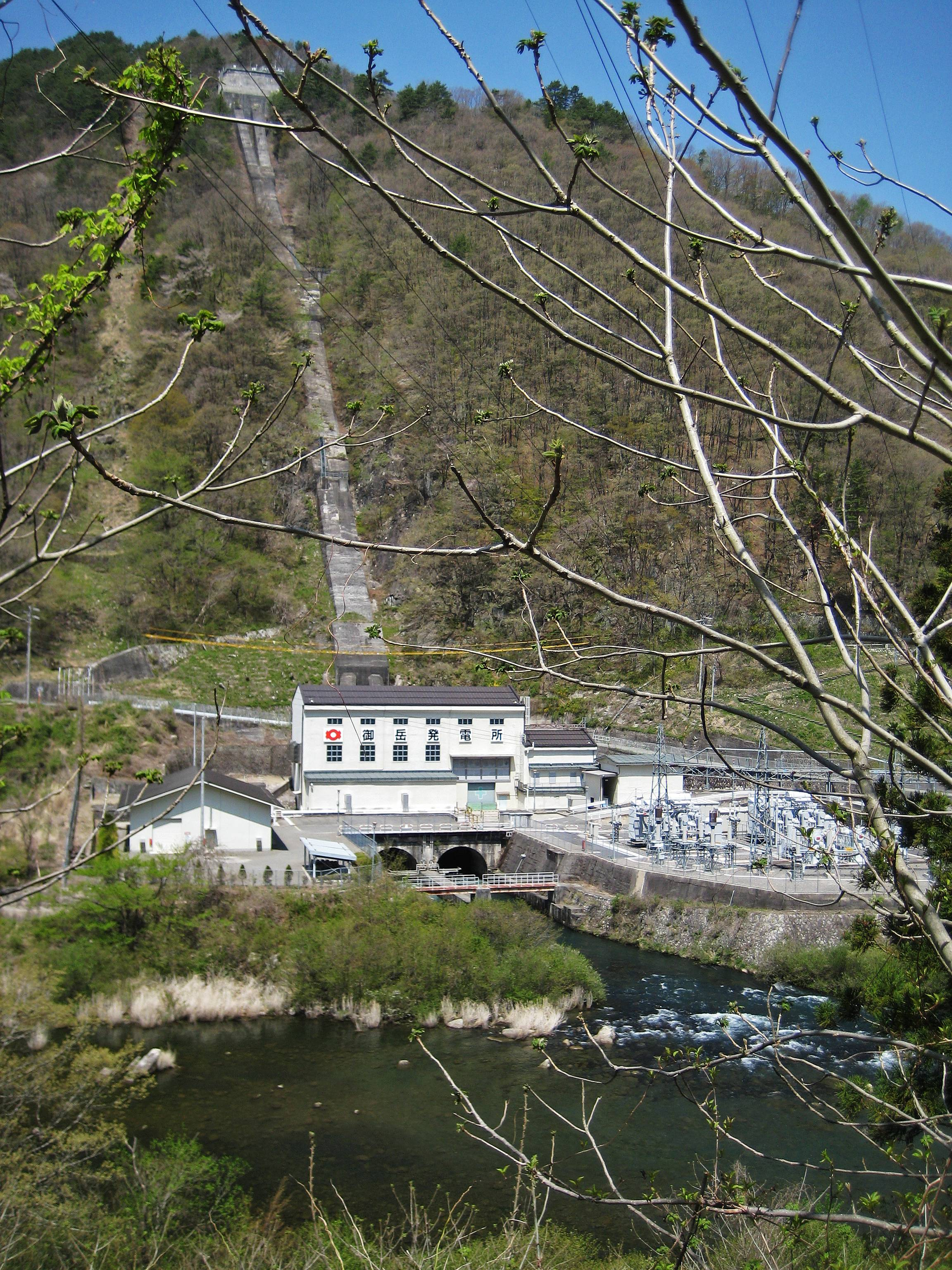 Ontake power station.